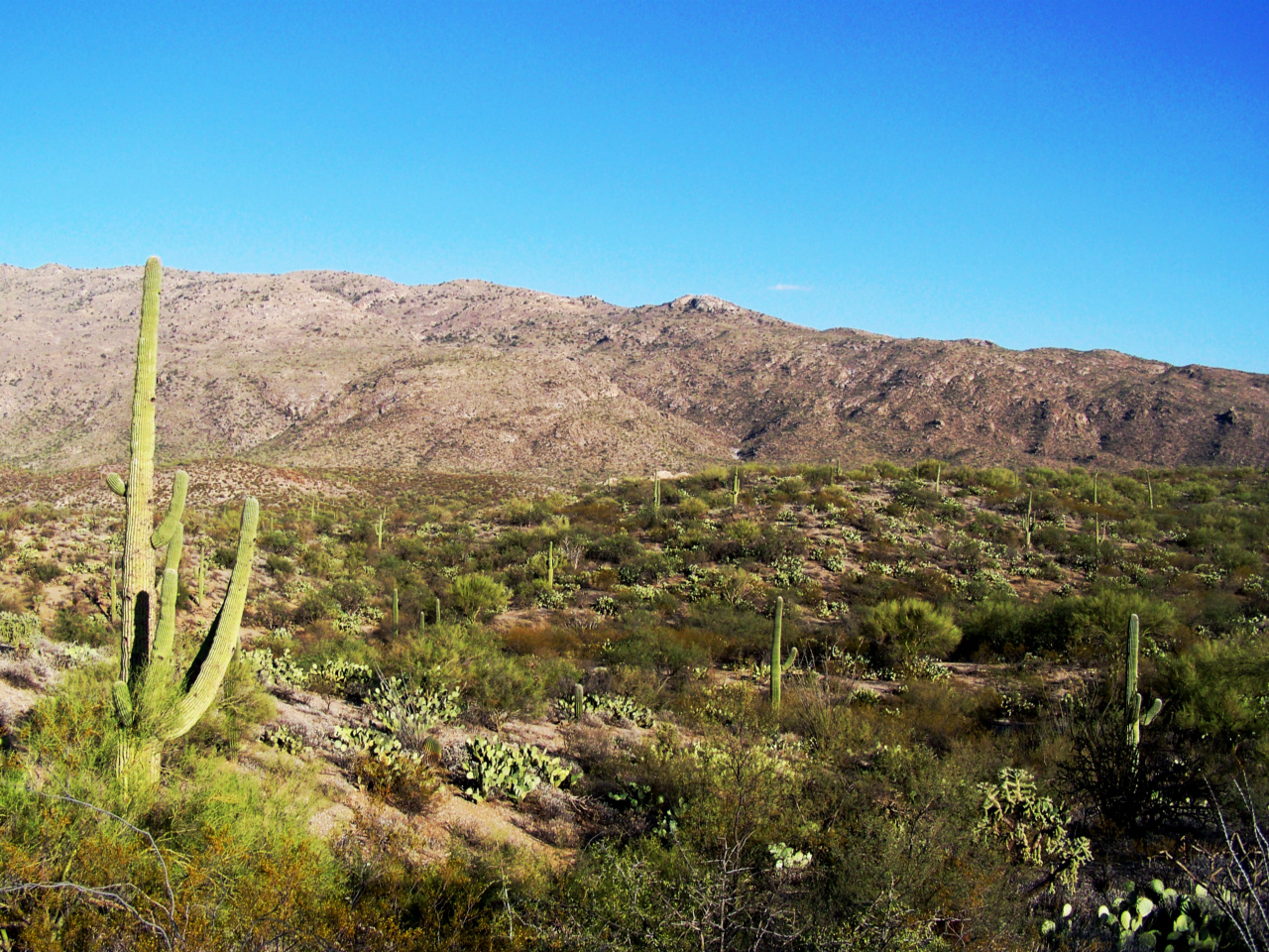 This is a view of Saguaro National Park on the east side of Tucson, nestled in the foothills of the Rincon Mountains.